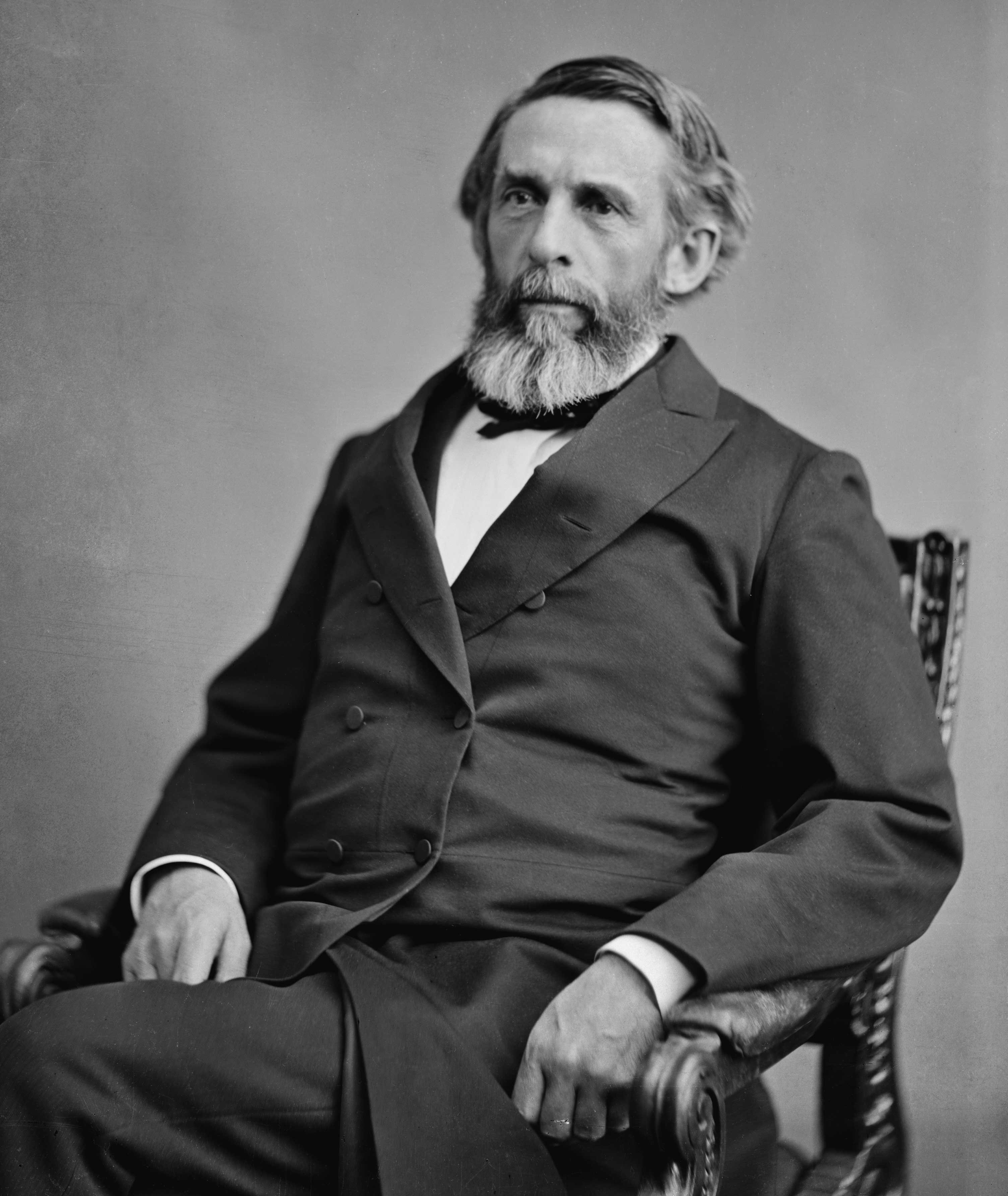 George S. Boutwell, former Secretary of the Treasury of the United States.